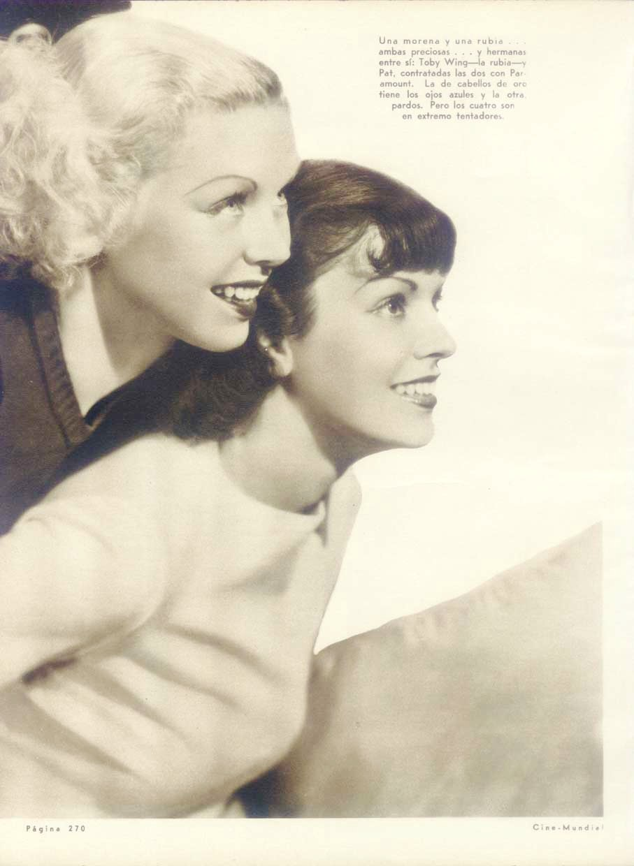 Publicity photo of Pat & Toby Wing for Argentinean Magazine. (Printed in USA)